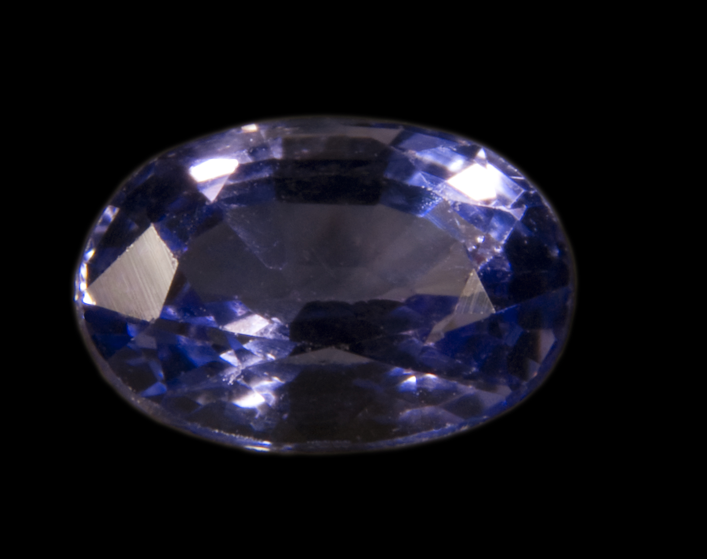 Tanazanite (Zoisite) cut stone o,38ct - C-Block Mine, Merelani Hills (Mererani), Lelatema Mts, Arusha Tanzania